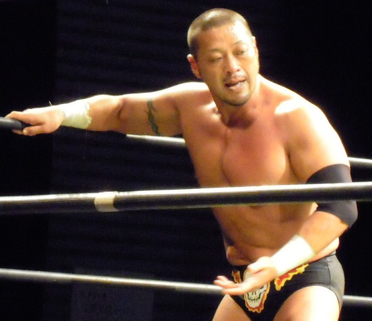 Japanese professional wrestler,Dick Togo. Sep 8 2010 DDT Shinkiba 1st Ring.